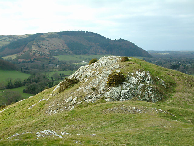 Cronk Sumark - Isle of Man. The summit of this ancient hill fort.